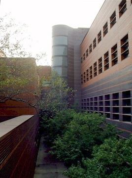 Courtyard of Black Hall on the Iowa State University campus